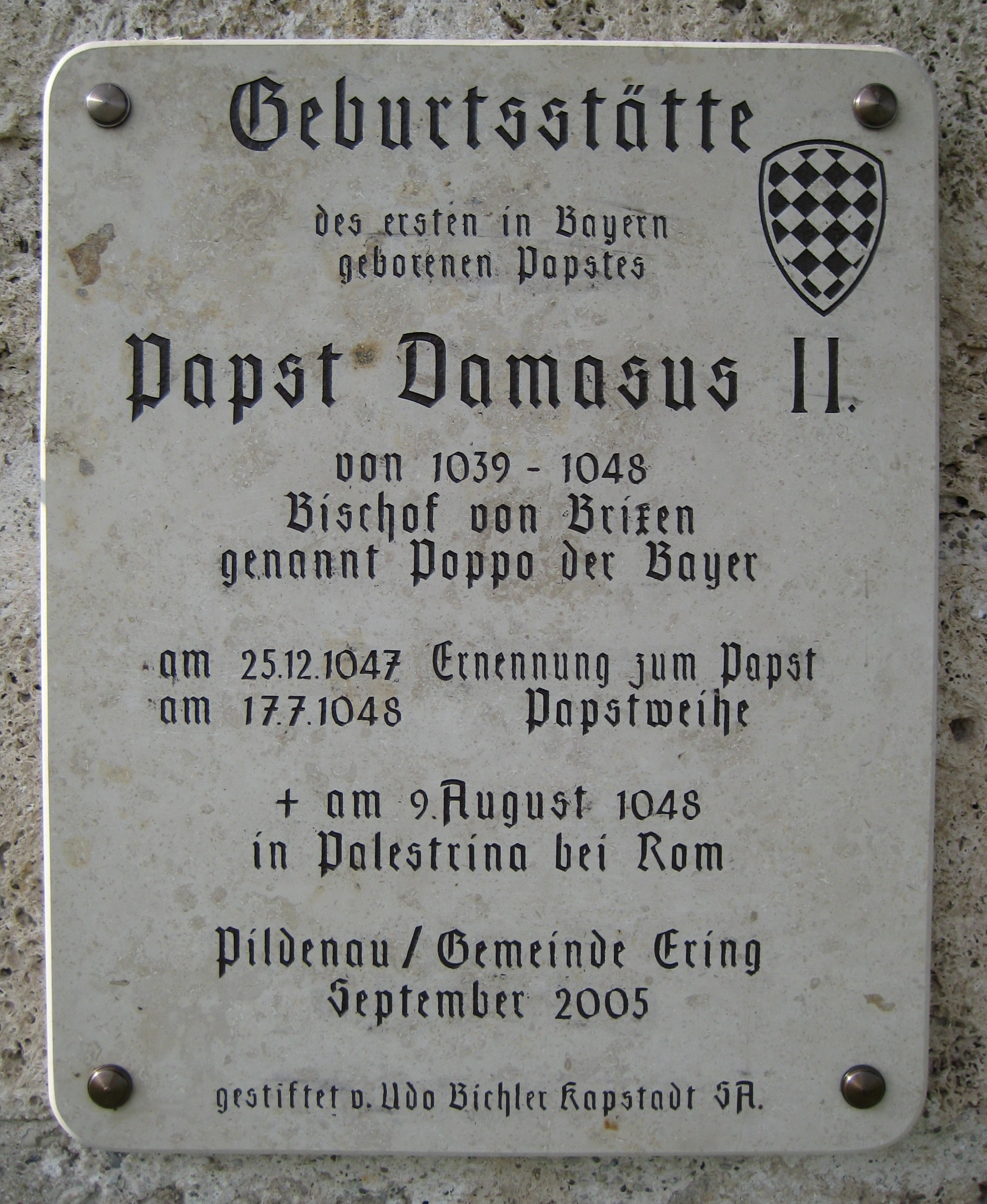 Plate on the Church at the birthplace of Pope Damasus II in Pildenau near Ering